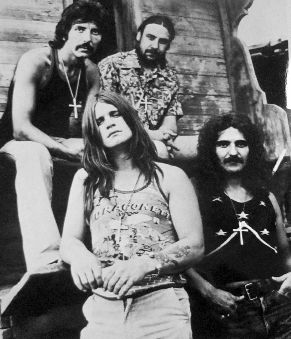 British heavy metal band Black Sabbath.